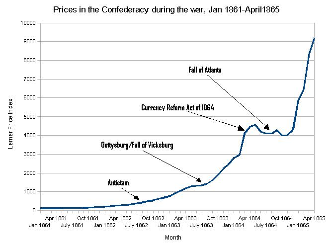 Price level in the Confederacy during the American Civil War. Based on Lerner (1956), Journal of Political Economy.